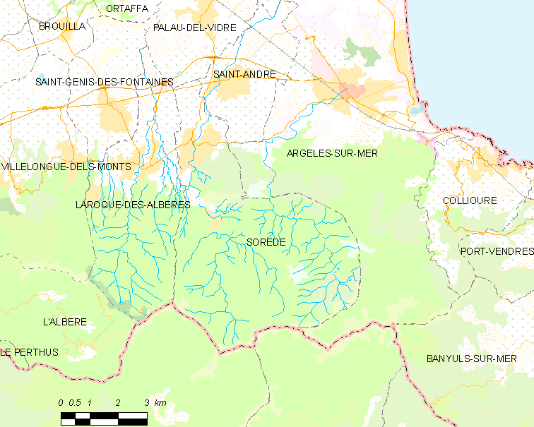 Map of French municipality